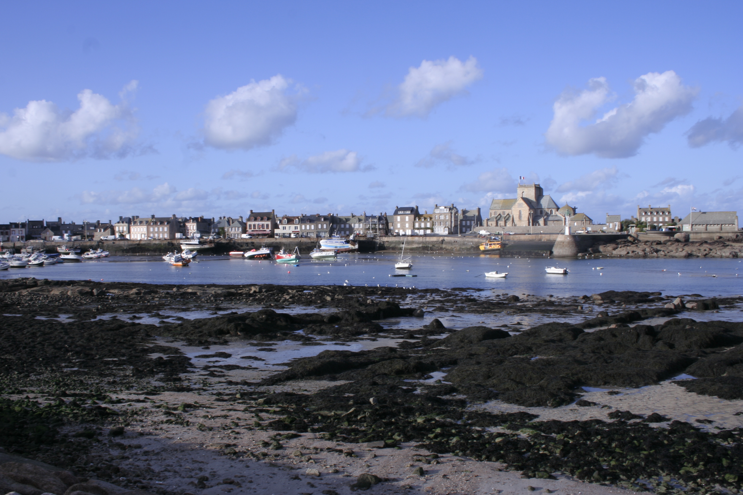 Barfleur